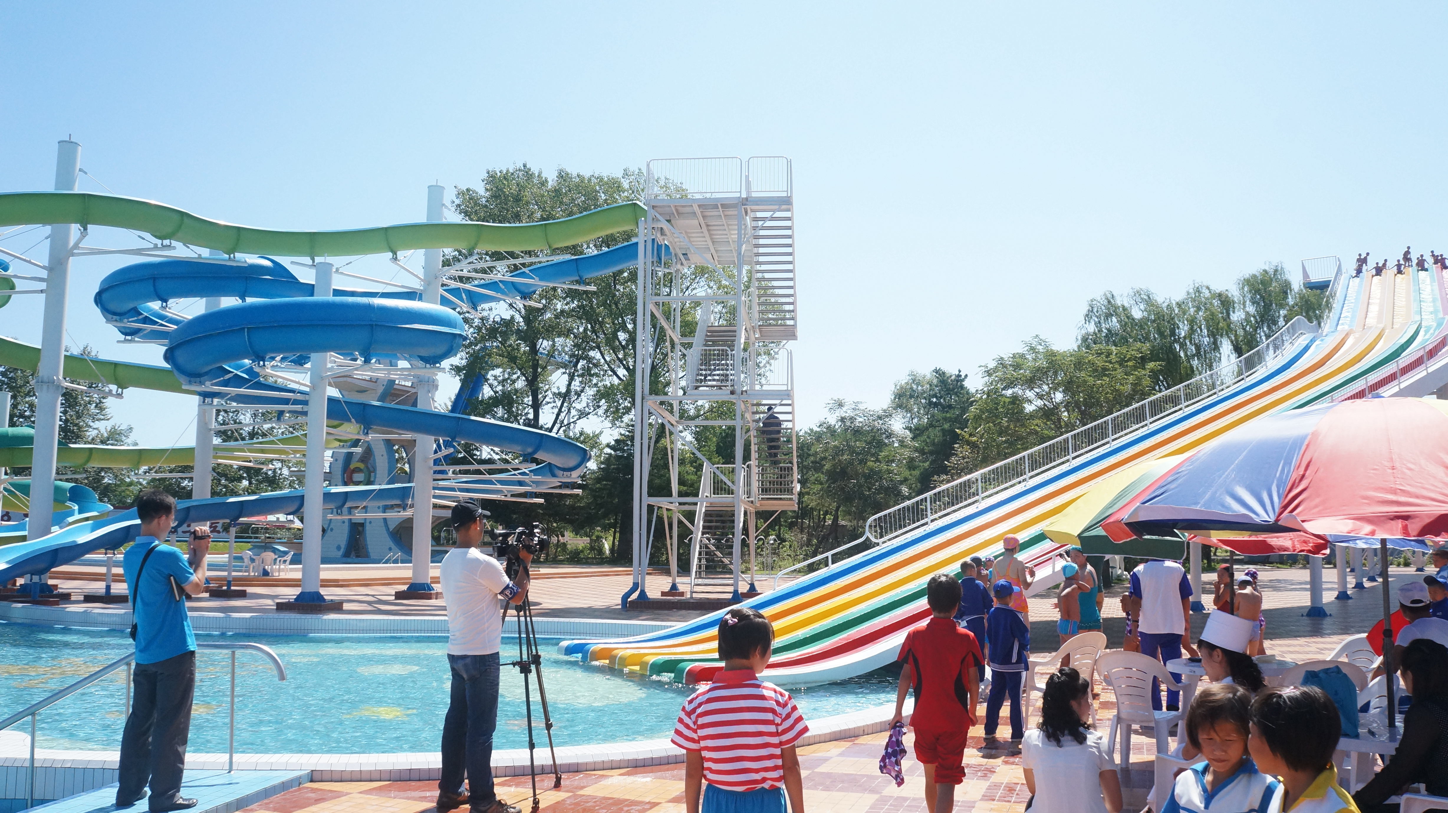 Songdown International Children's Camp